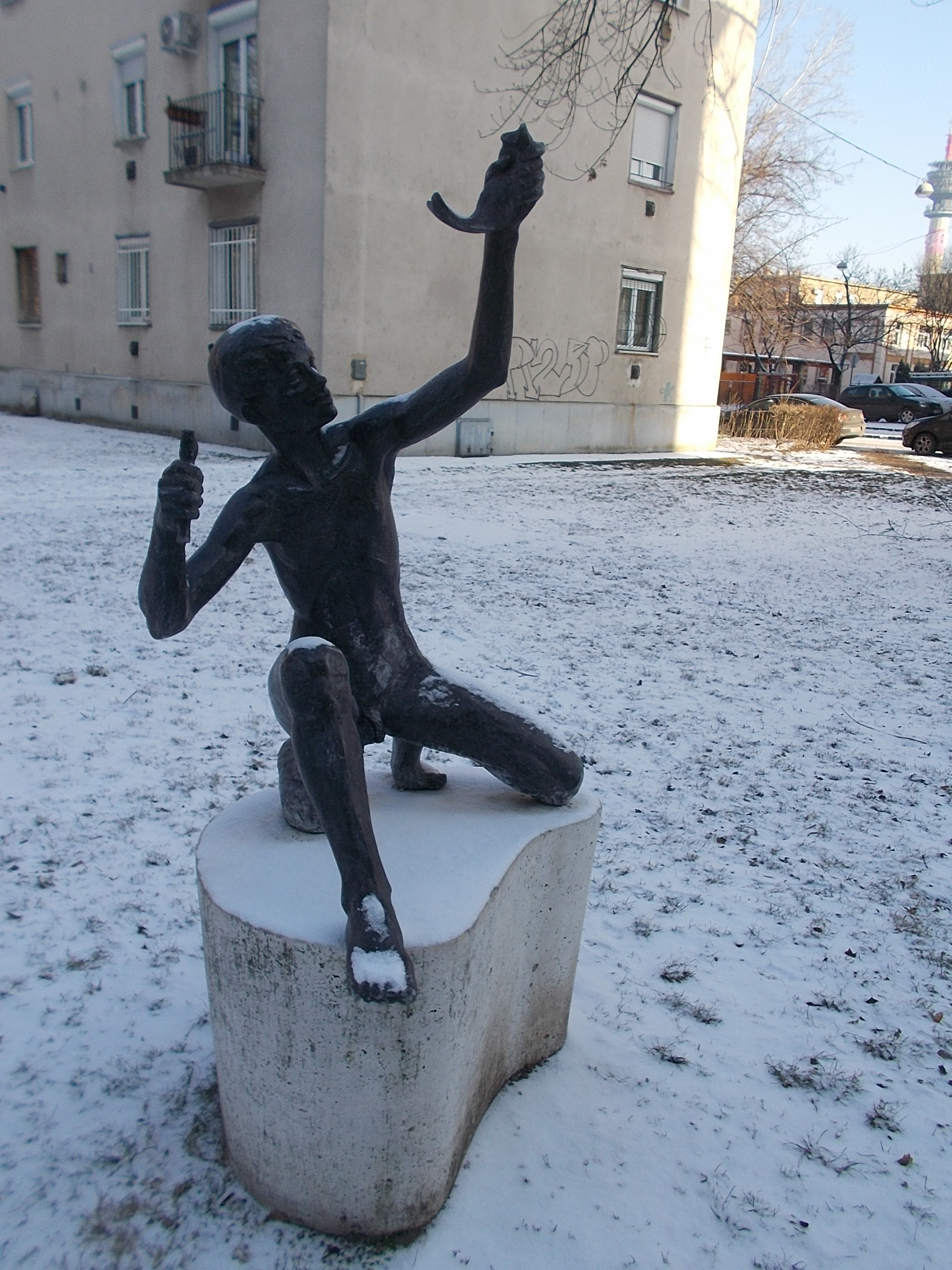 Angler boy statue at Szárnyas Street housing estate. - Szárnyas Street, Gyárdűlő neighborhood, Budapest District X.